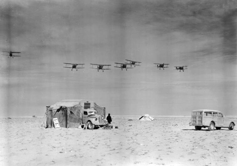 Seven Gloster Gladiators of No. 3 Squadron RAAF make a low pass in loose line abreast formation over the Squadron's mobile operations room at their landing ground near Sollum, Egypt, from which they operated during "Operation Compass". The aircraft were returning from a patrol over Bardia. The squadron's mobile operations room is in the left foreground.